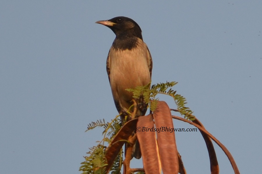 Winter visitor of India